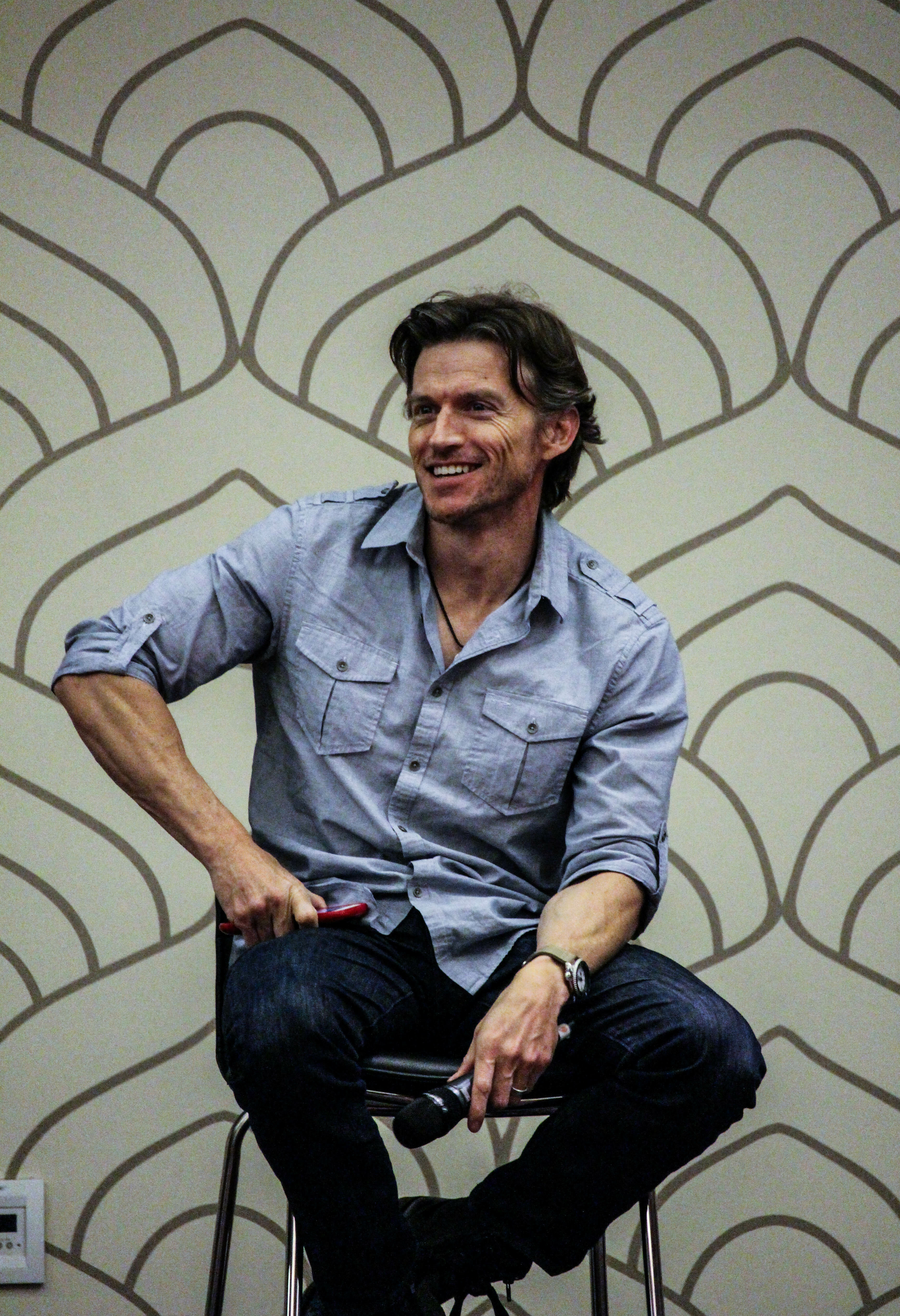 Gideon Emery, day one of HowlerCon 2017